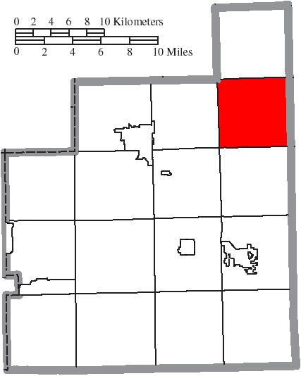 Map of the municipal and township boundaries of Geauga County, Ohio, United States, as of the 2000 census, with the location of Montville Township highlighted. Township borders are shown only in unincorporated areas in order to differentiate incorporated and unincorporated areas more clearly.